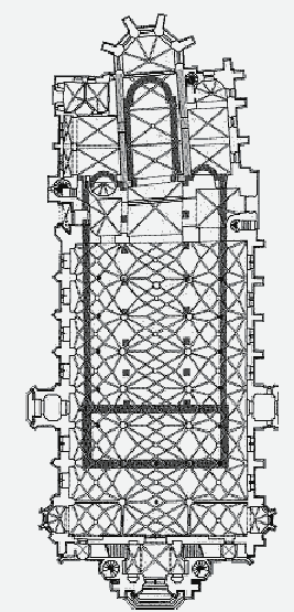 Ground-plan of St. Thomas' Church including foundations of the basilica and the choir about 1213/1222